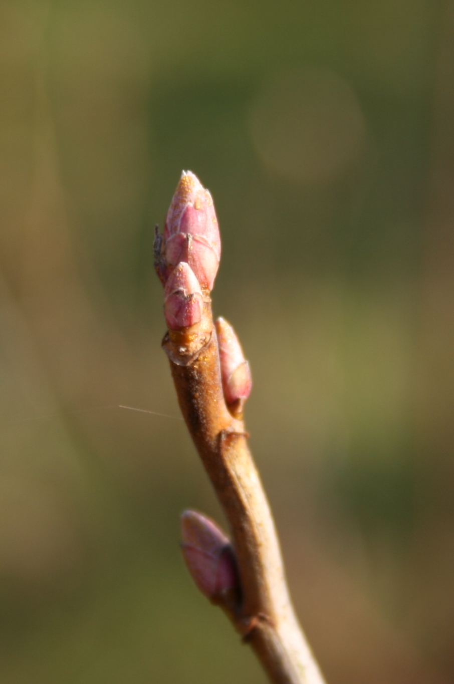 Ribes nigrum: Buds